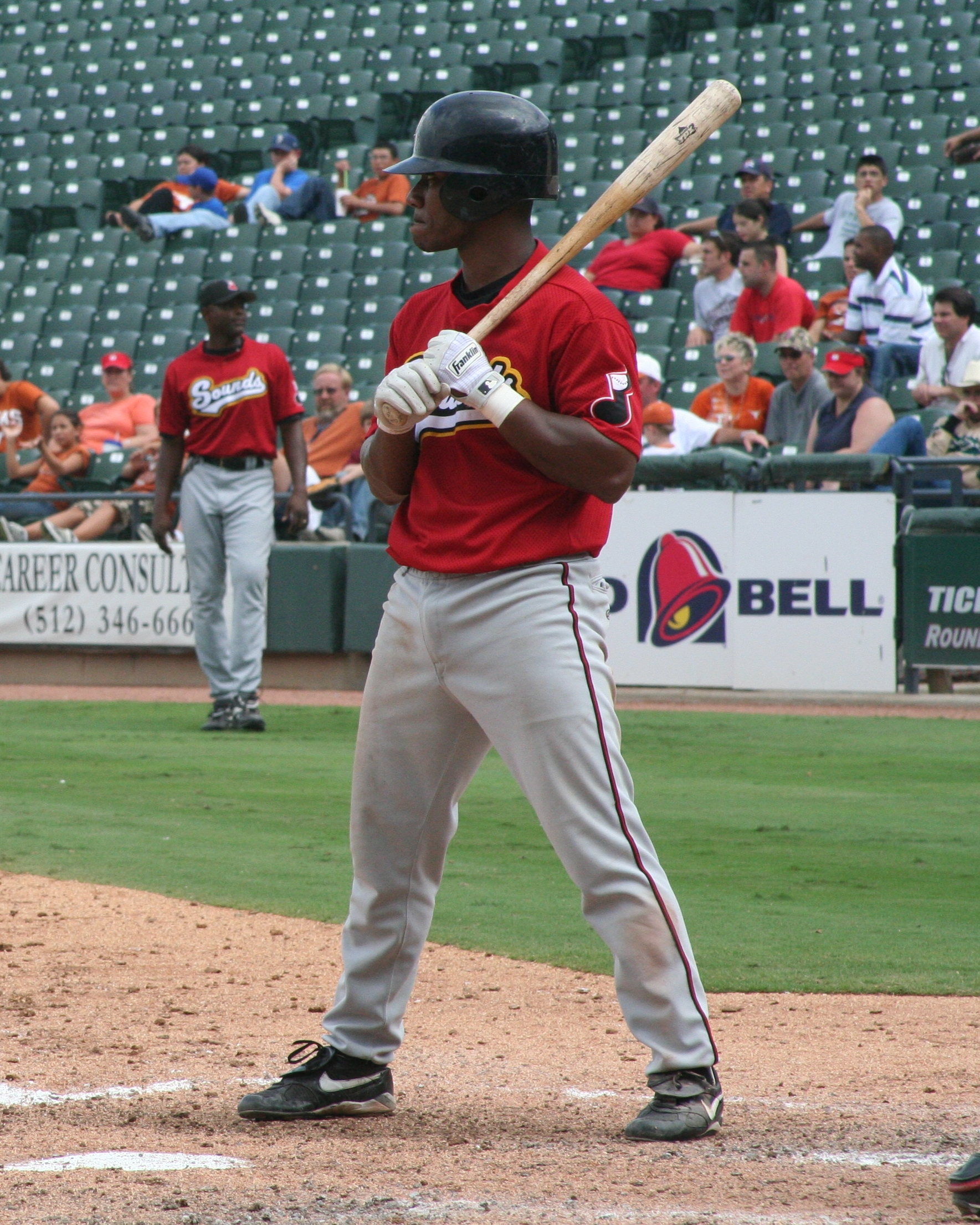 Jermaine Clark, an outfielder for the minor league Nashville Sounds, prepares to bat in a game at the Dell Diamond on September 9, 2006